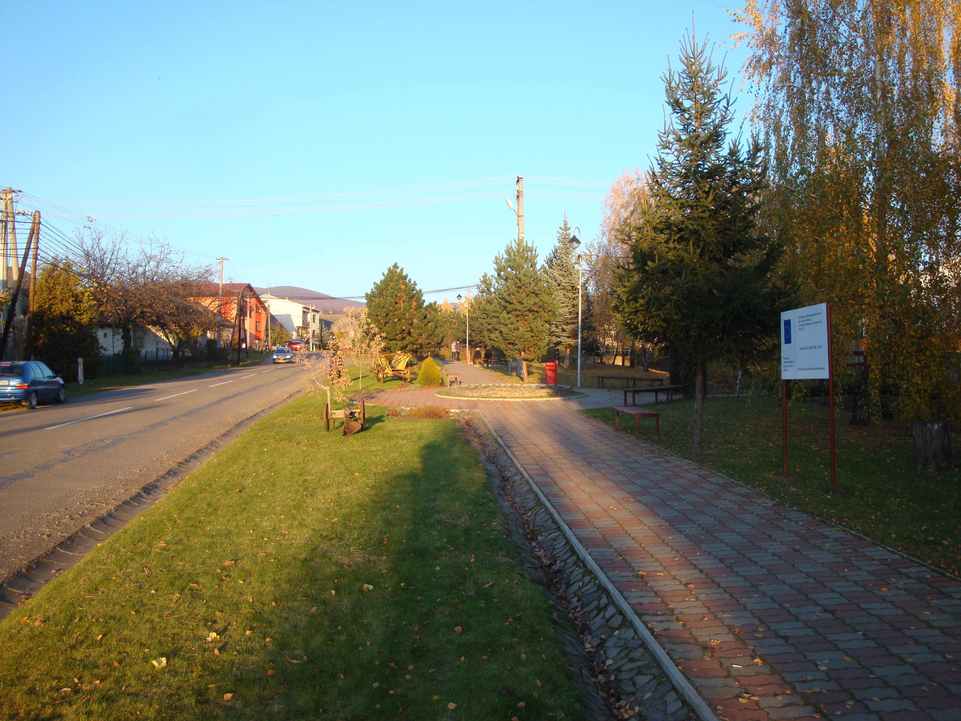 Andrew Ray, personal photograph taken while walking in Koromľa, Slovakia October 31st, 2010.